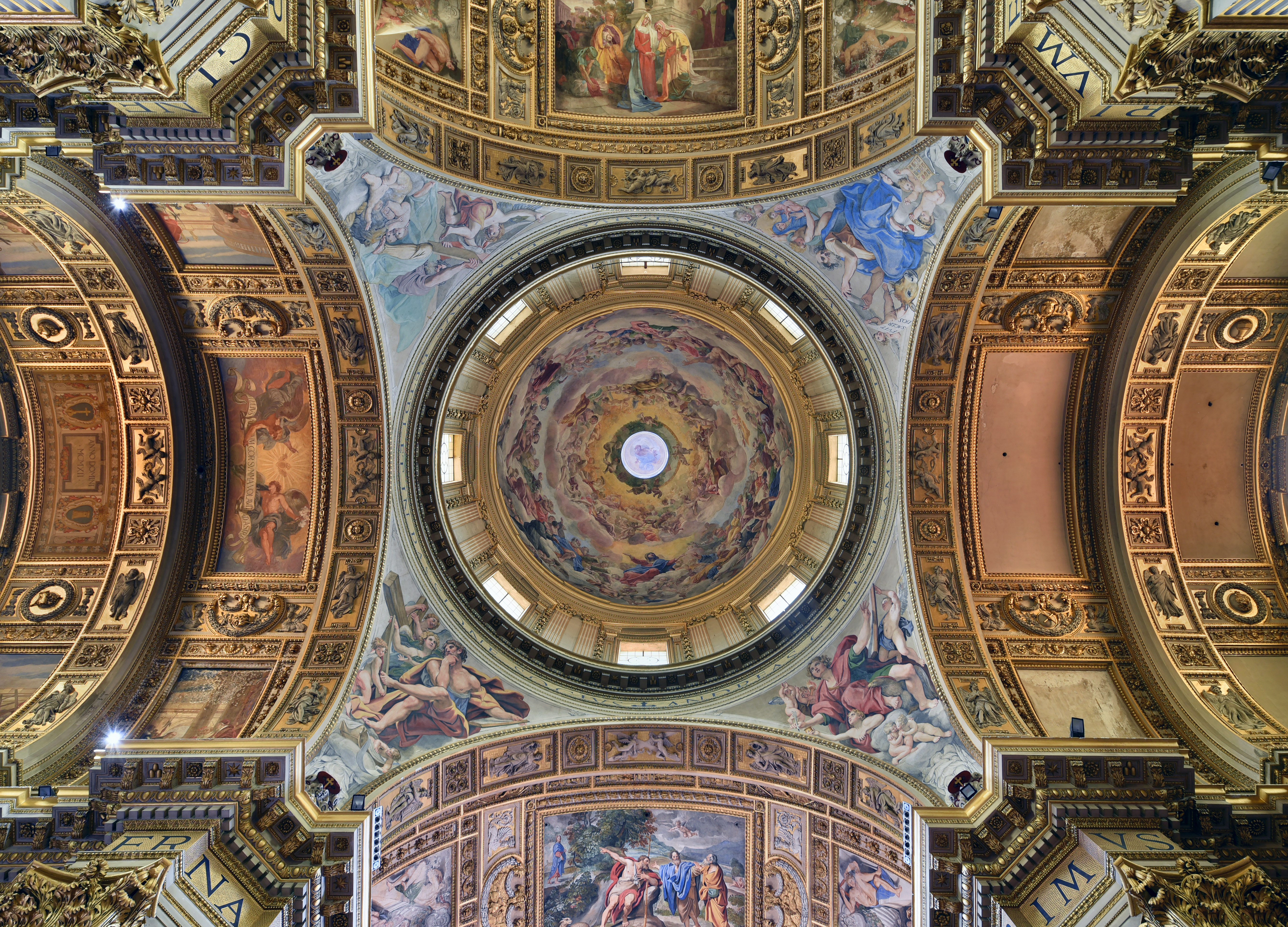 Sant'Andrea della Valle (Rome) - Dome and ceiling